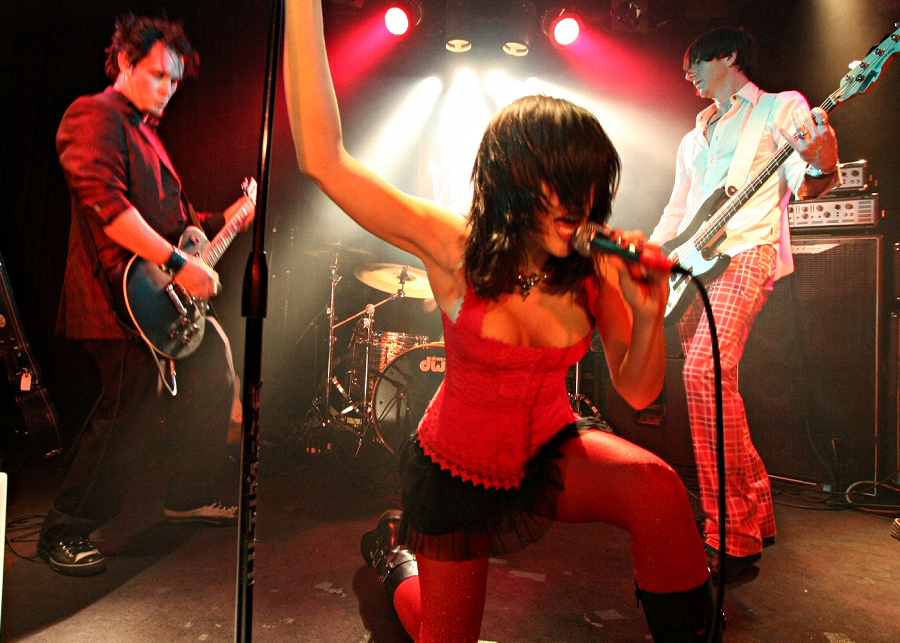 Los Angeles band Stimulator, at the Viper Room in West Hollywood, Calif., Aug 31, 2010.